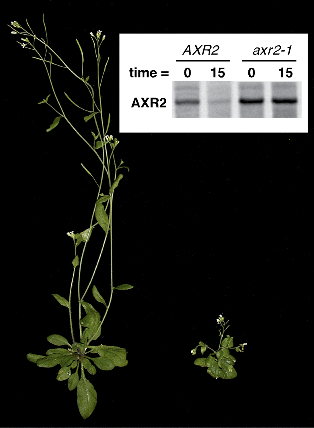 Wild-type Arabidopsis thaliana (left) and the axr2-1 mutant (right). axr2-1 is a dominant gain-of-function mutation in an Aux/IAA gene that confers reduced auxin response. The mutant axr2-1 protein constitutively represses auxin response because it cannot be targeted for proteolysis by the SCFTIR1 ubiquitin ligase. The effect of the mutation on AXR2 stability is shown in a pulse-chase experiment (inset). Wild-type and axr2-1 seedlings were labeled with 35S-methionine and AXR2/axr2-1 protein was immunoprecipitated either immediately after the labeling period (t = 0) or following a 15-minute chase with unlabeled methionine (t = 15).